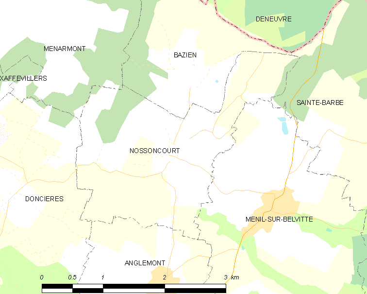 Map of French municipality Nossoncourt